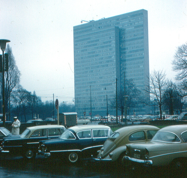 The Thyssen-Haus in Düsseldorf was the most interesting business building that I saw in Germany. It was built in 1957-1960 for Phoenix-Rheinrohr AG. The building is 94 m (308 ft) high. It is sometimes called the "Dreischeibenhaus" (three-slice building). A selection of cars from 1960. The Volkswagen was old, even in 1960. A one-piece rear window replaced the two-piece window in 1953. My 1960 VW had a larger, rectangular rear window, which first appeared in 1958. Is that a parking warden in the left background?